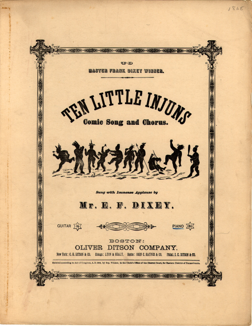 Sheet music cover